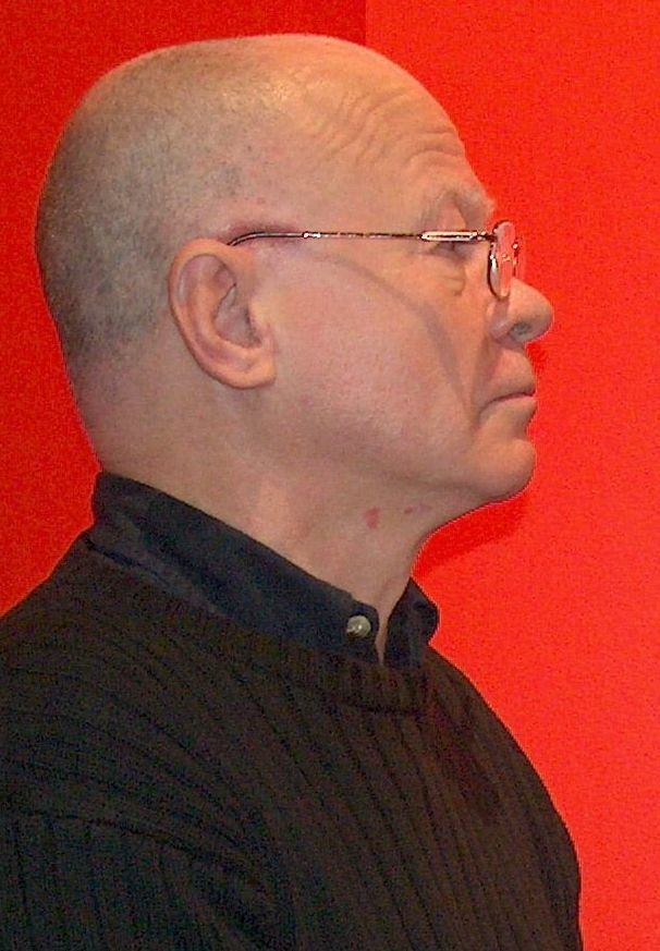 Priit Pärn, Estonian artist, at the Helsinki Book Fair in 2004